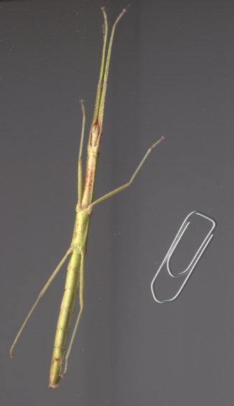 Carausius morosus with paperclip